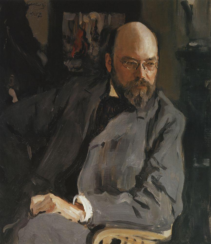 Portrait of the Artist Ilya Ostroukhov